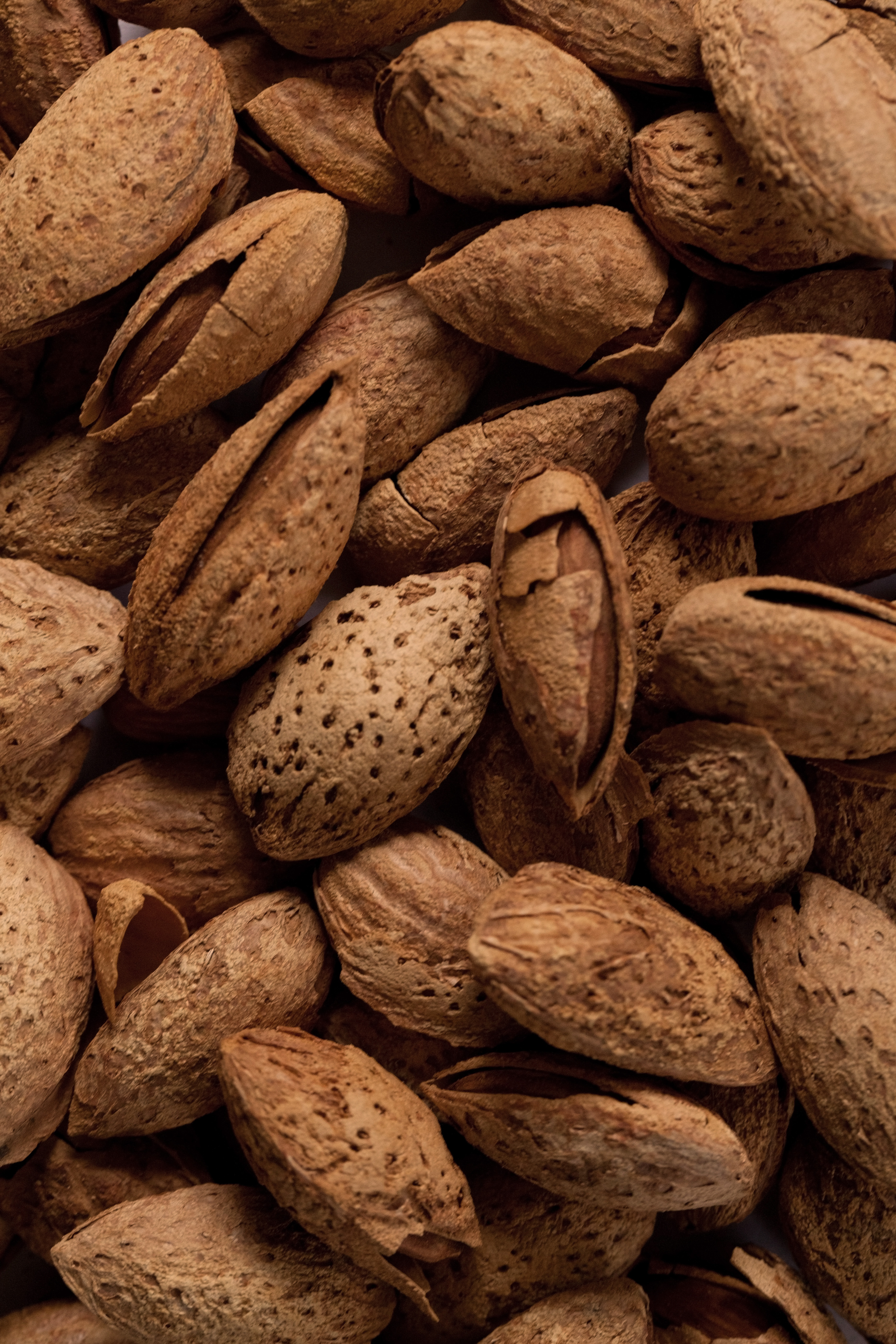 We are now down to the last few packets of those snacks from Tanico that Ana and Marisu bought us. These are toasted almonds. You understand that we have lots of almond groves in this area so the nuts are a plenty. The almond is such a useful product. First off, you can use the oil for cooking and as a beauty product. You can turn almonds in to milk or butter, make Amoretto from them, eat them raw, use them in cakes and biscuits and make paste from them to decorate cakes. The popular way to eat them here is deep fried, most bars serve them that way as an accompaniment to a drink. I have never seen them toasted like this though. To eat them, you break the crisp shell apart to reveal the toasted nut inside. Delicious. Canon 5D Mk II with a Canon EF 100mm f/2.8L Macro IS USM lens.